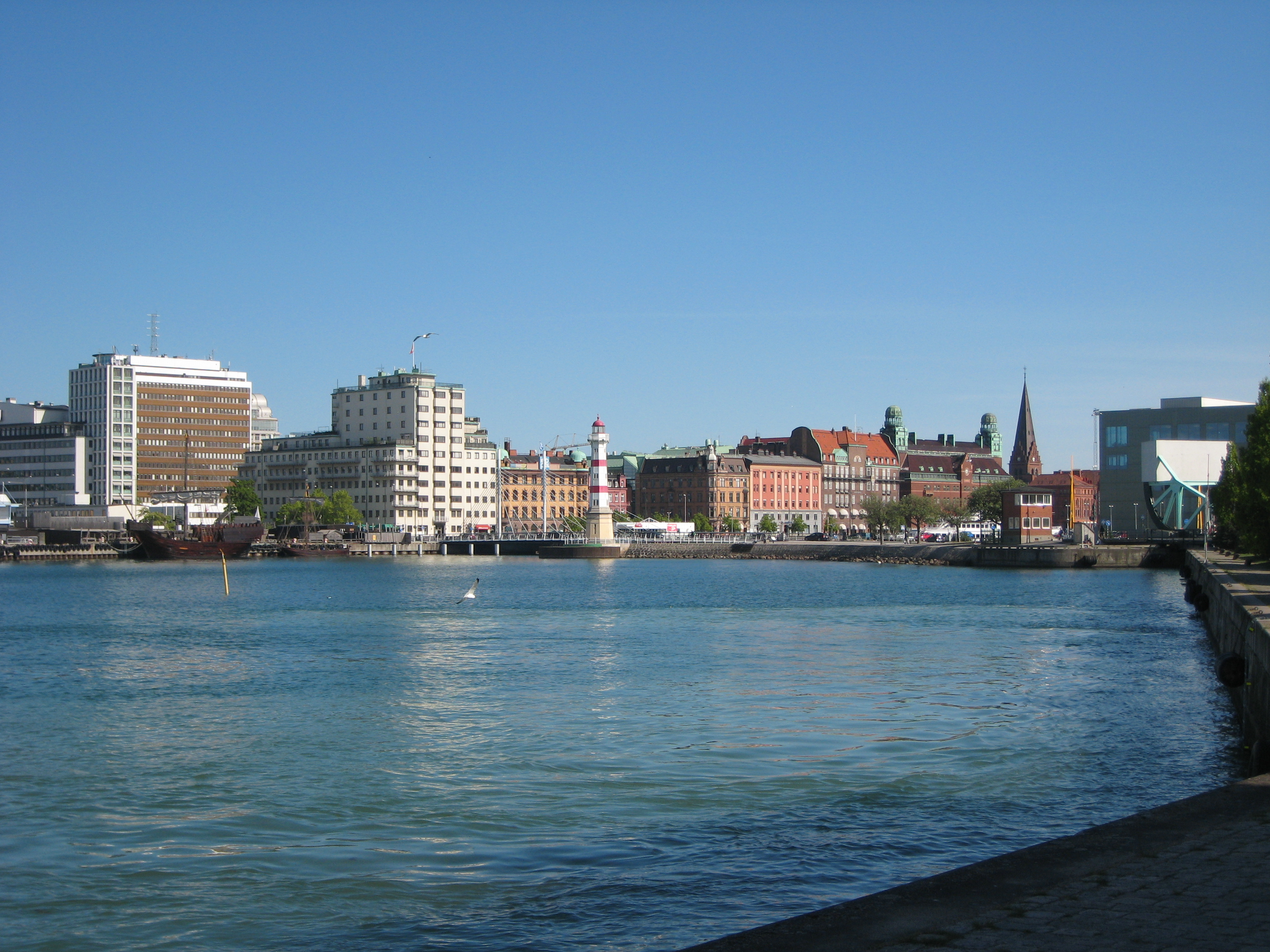 Malmö